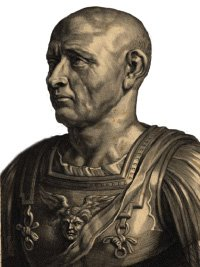 Scipio Africanus Major